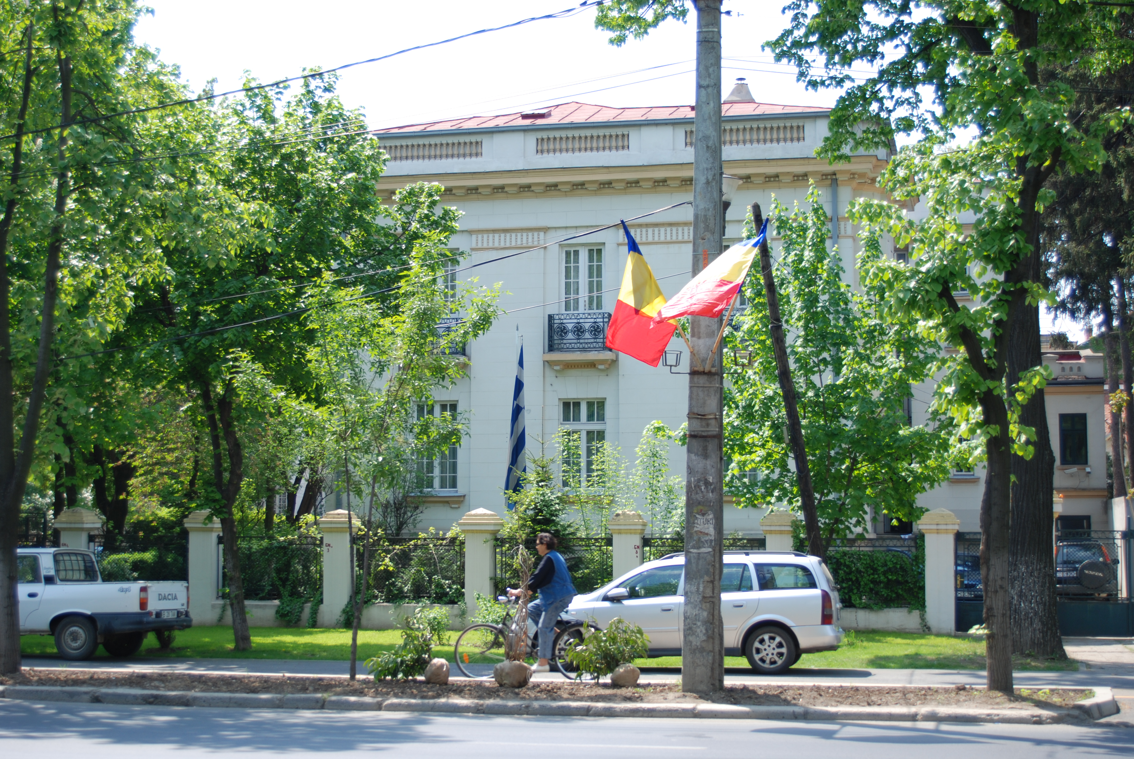 Greek embassy, Bucuresti.